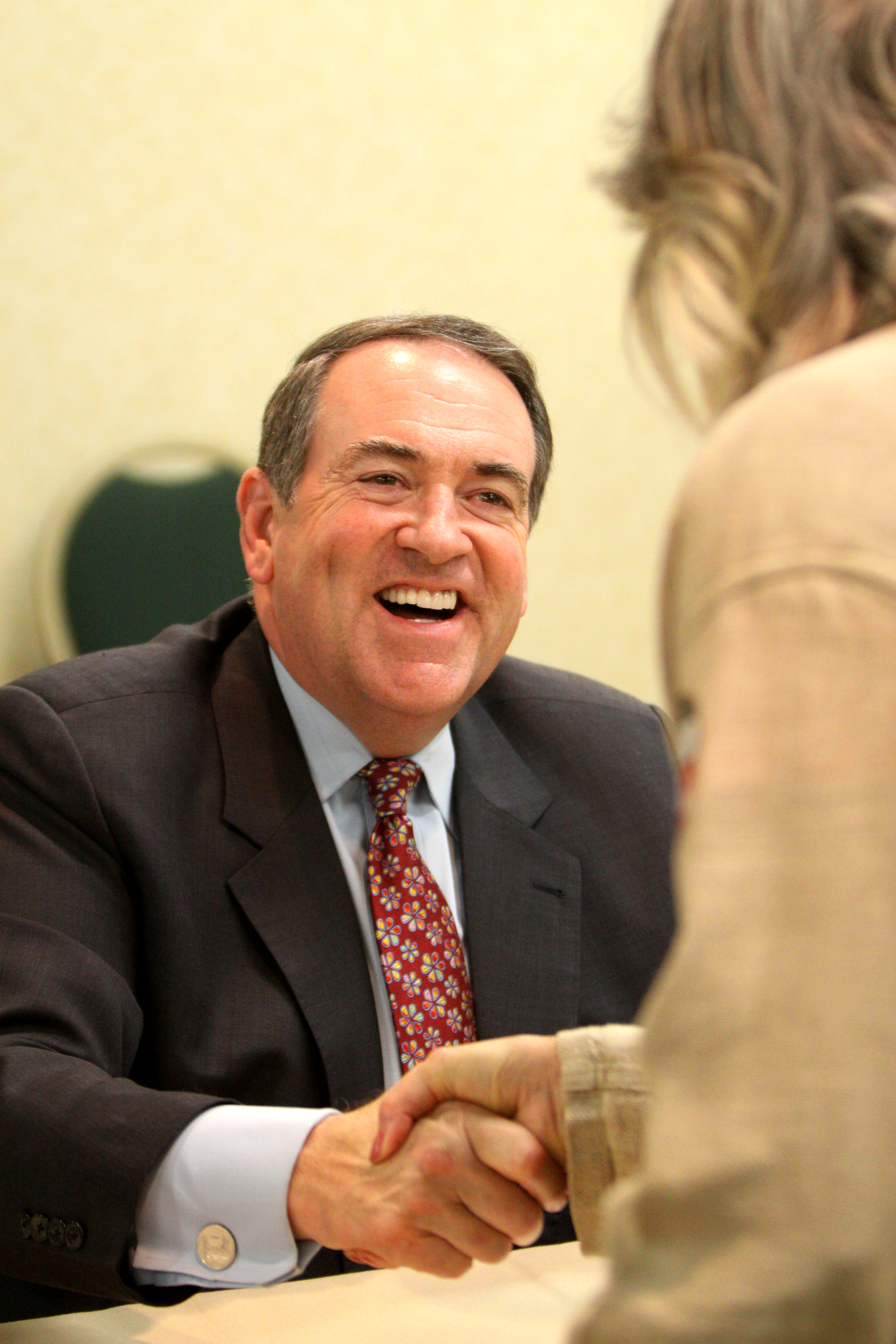 Governor Mike Huckabee at a book signing at the Republican Leadership Conference in New Orleans, Louisiana. Mike Huckabee in 2011 at a book signing at the Republican Leadership Conference in New Orleans, Louisiana.